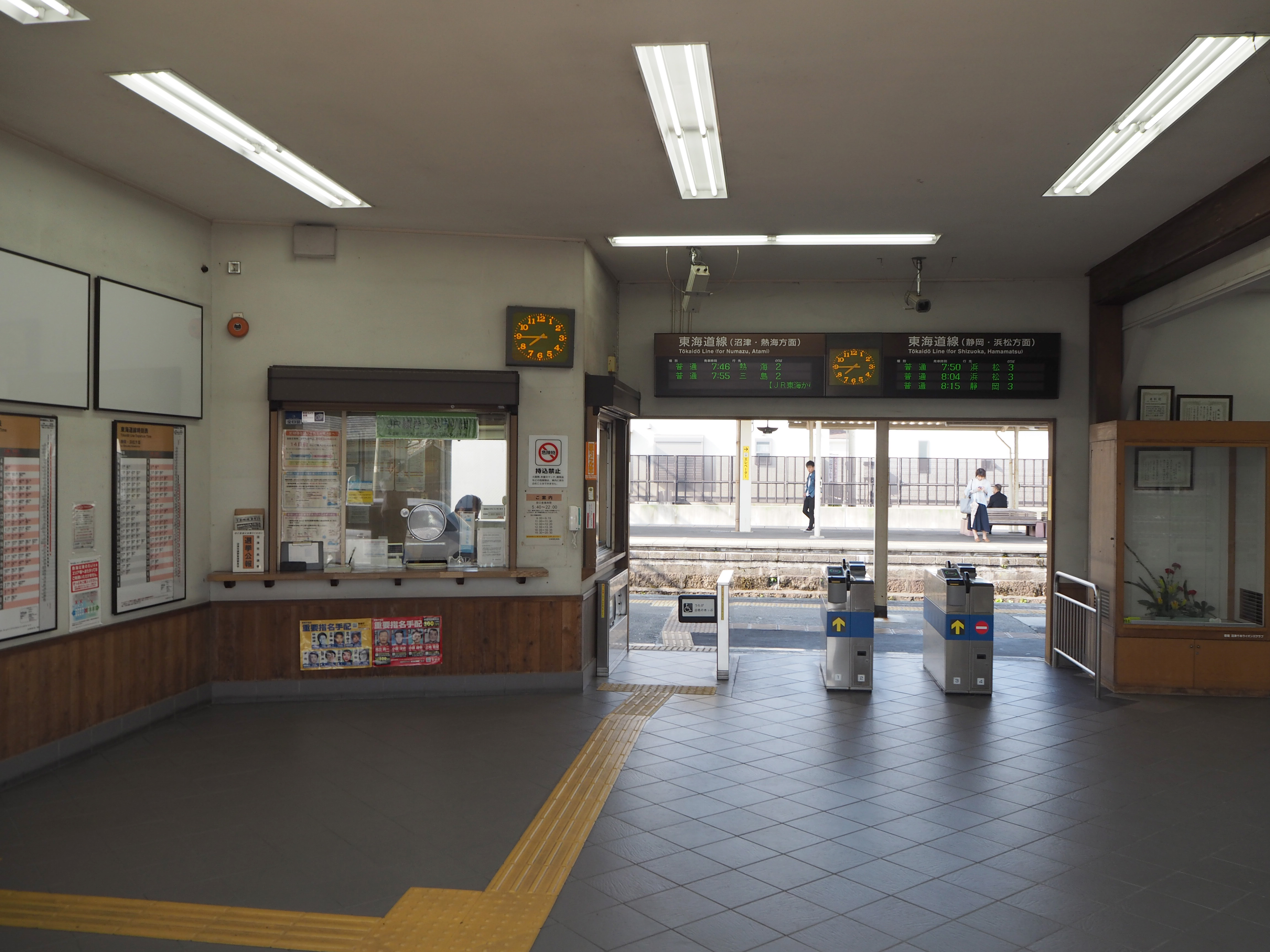 Ticket barriers of Hara Station (Shizuoka)